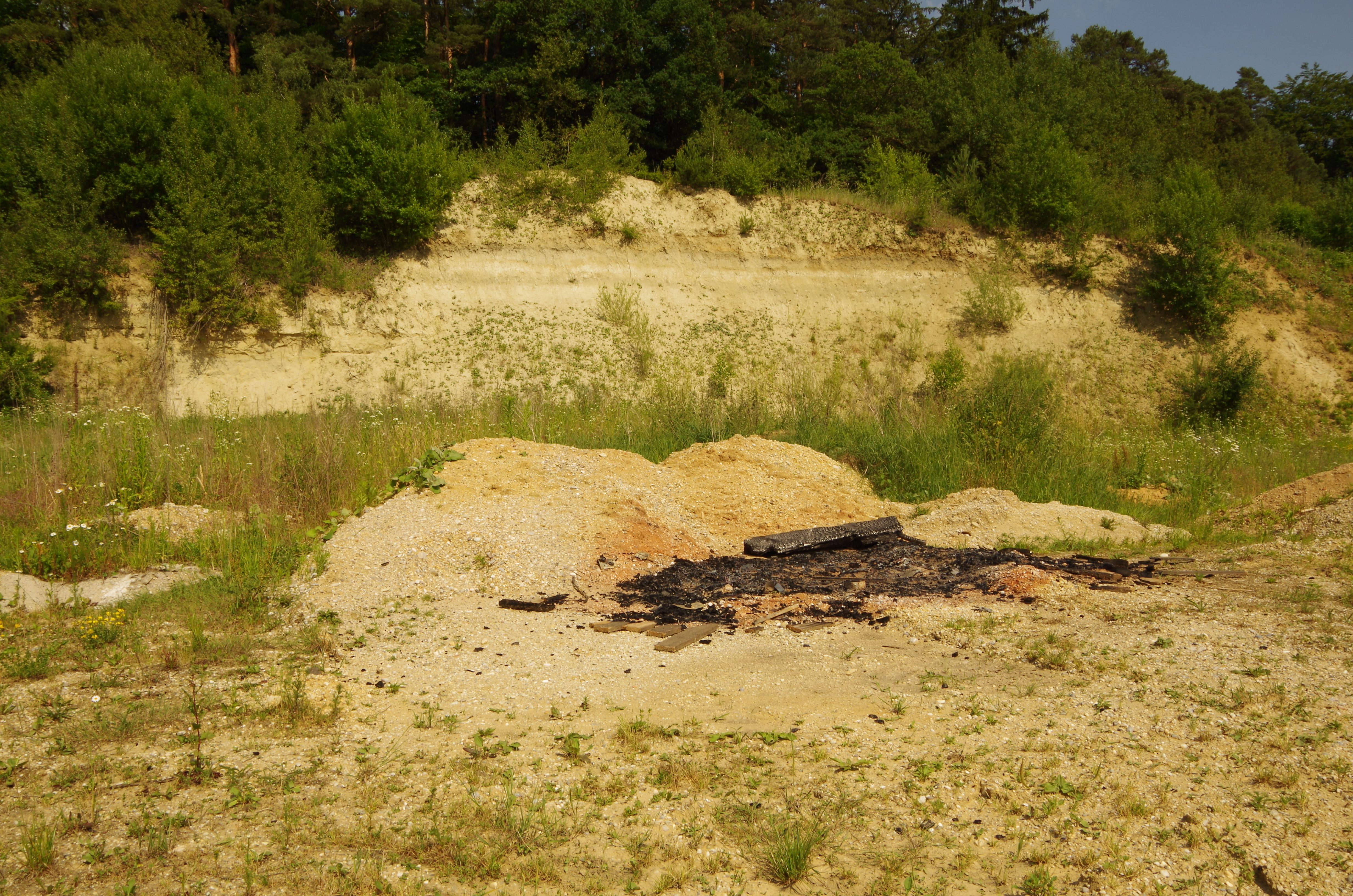 Sand pit north-east of Brunnhof near Pfaffenhofen a.d. Ilm